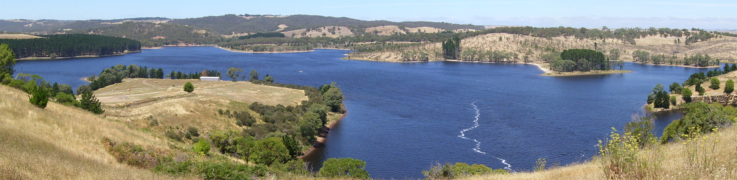 Myponga Reservoir shot from roadside. Panorama assembled with Autopano.